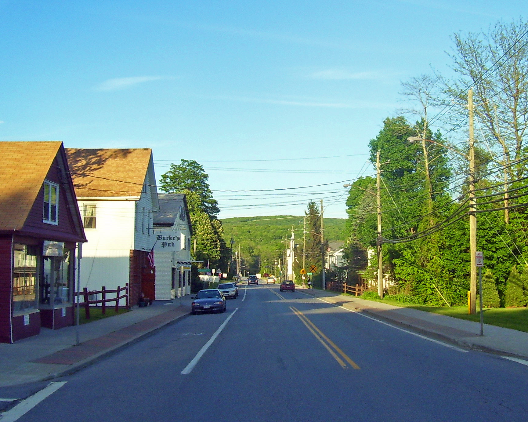 Looking north (actually east at this point) along NY 311 through downtown Patterson, NY, USA